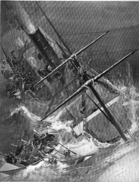 The Pacific Mail Steamship, SS City of Rio de Janeiro, strikes a hidden rock in San Francisco Bay and sinks with a loss of over 100 lives.